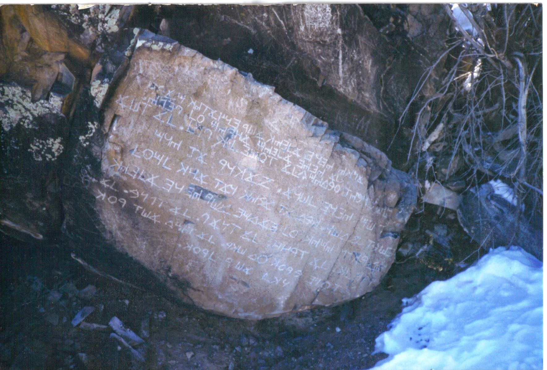 Los Lunas Decalogue Stone Photograph taken in January 1997 west of Los Lunas, New Mexico - Brian Haines